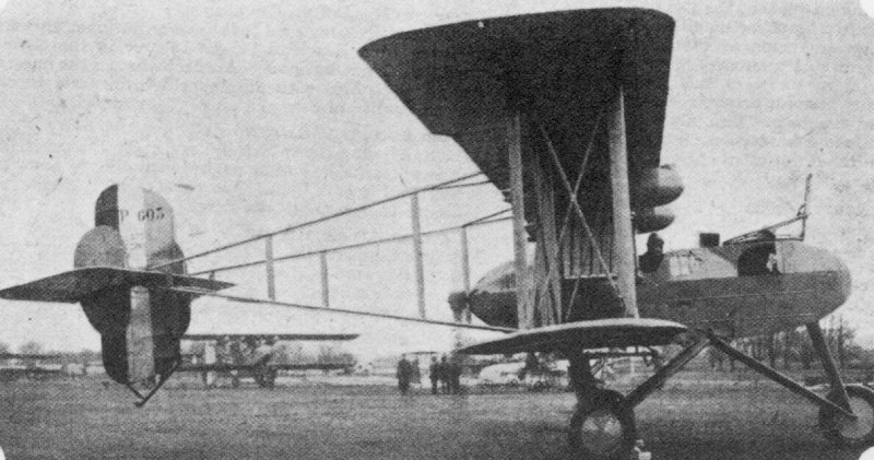 Breguet-Michelin